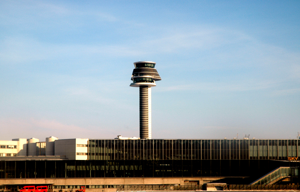 Arlanda Airport north of Stockholm, Sweden. Photograph by Henryk Kotowski.